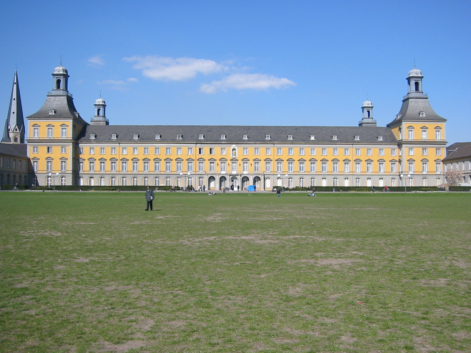 The main building of the University of the Bonn